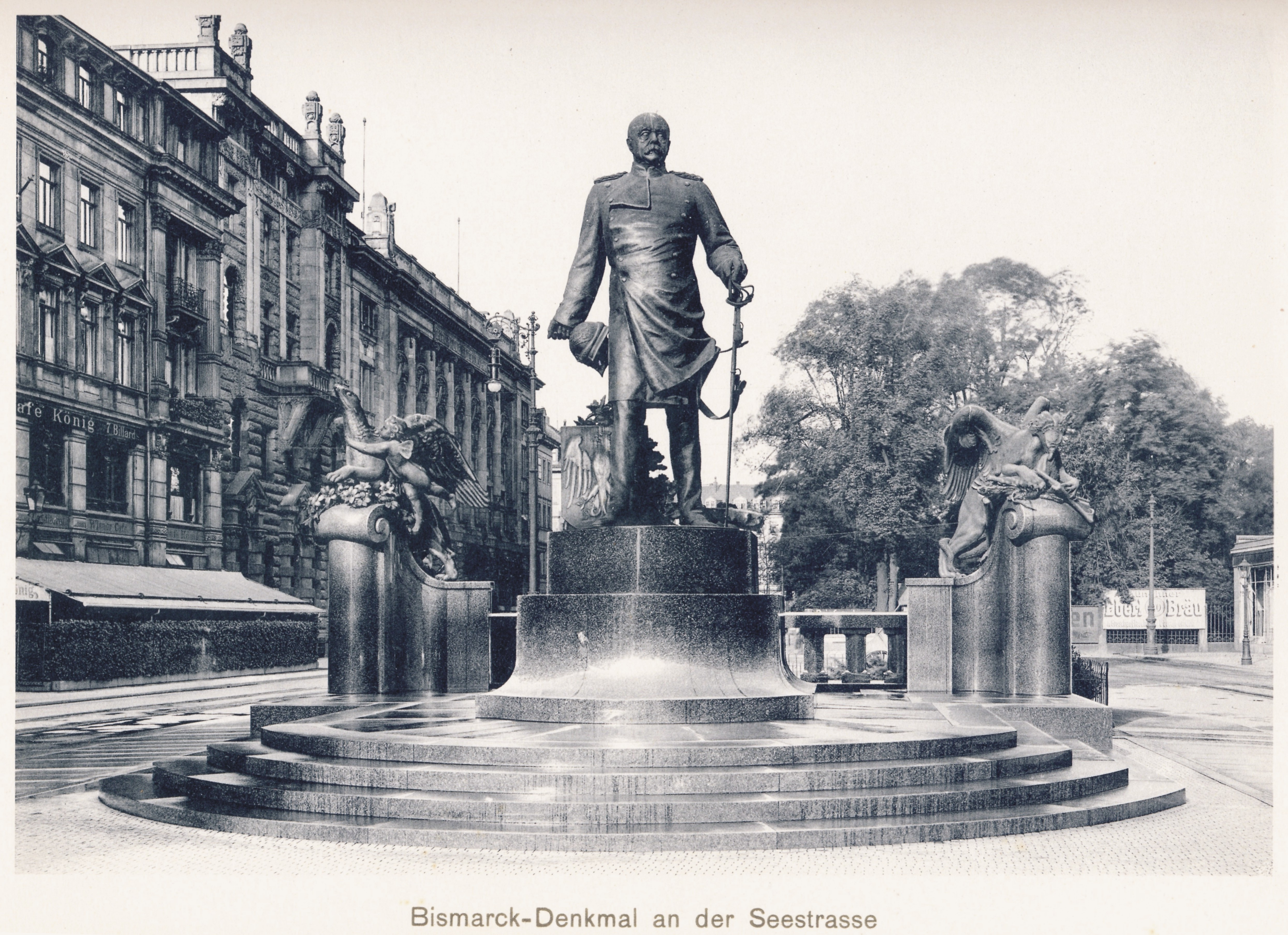 Bismarck memorial of Dresden (sculptor: Robert Diez) created 1899-1903